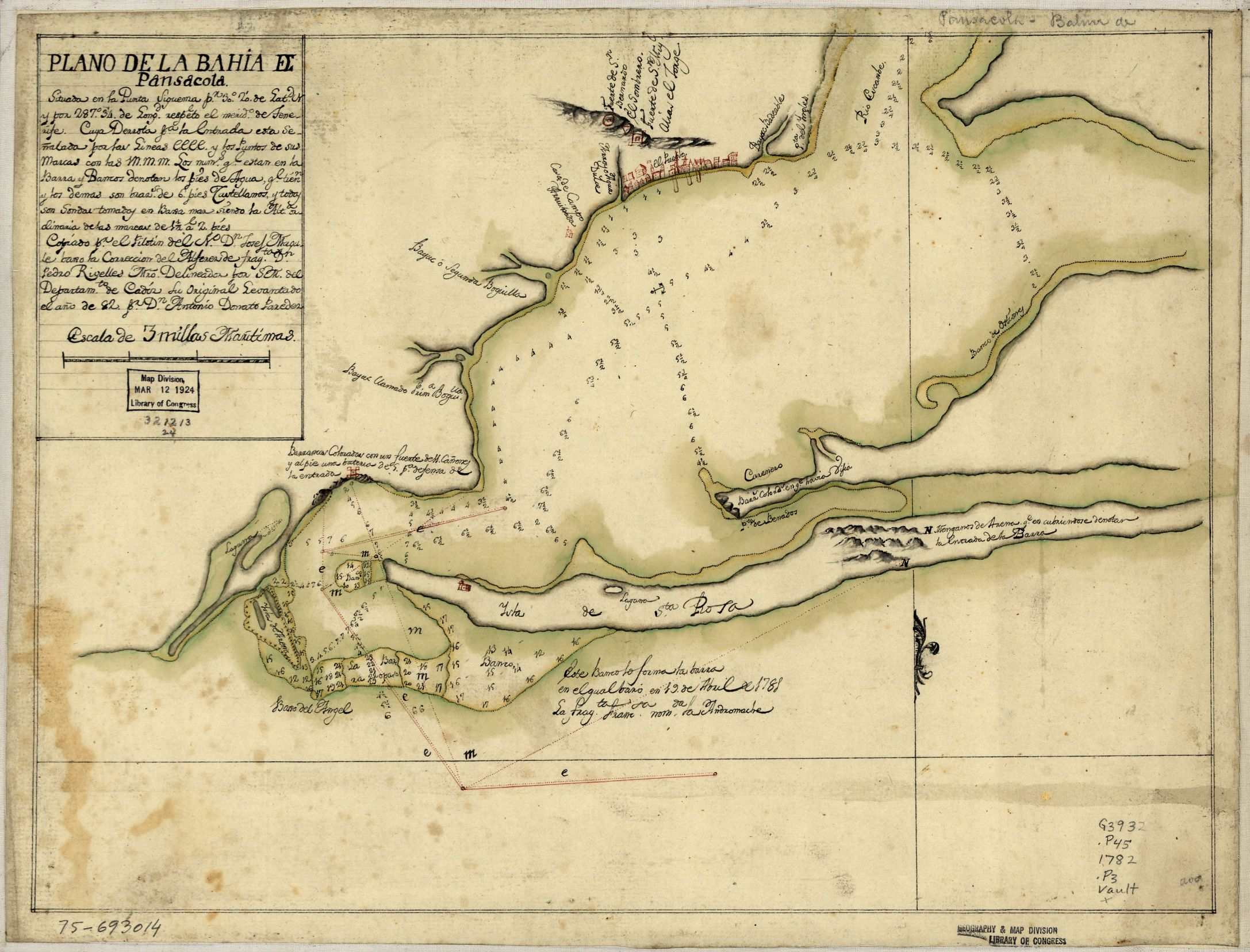 Plano de la bahía de Pansacola (Pensacola).